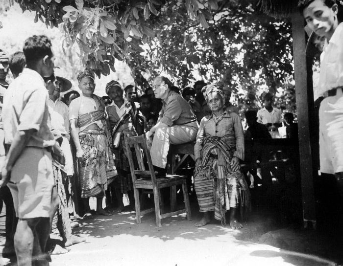 C. Martens, priest in Timor, among Timorese people during the Japanese occupation in October 1945, at Kafaminano